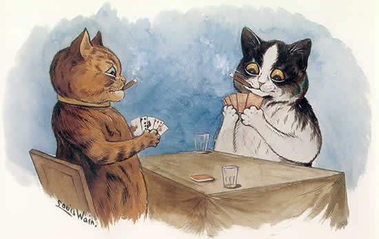 Louis Wain, Cats playing poker.